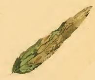 Stainton’s Natural History of the Tineina (1855–1873): Mompha langiella a mined leaf of Circaea lutetiana